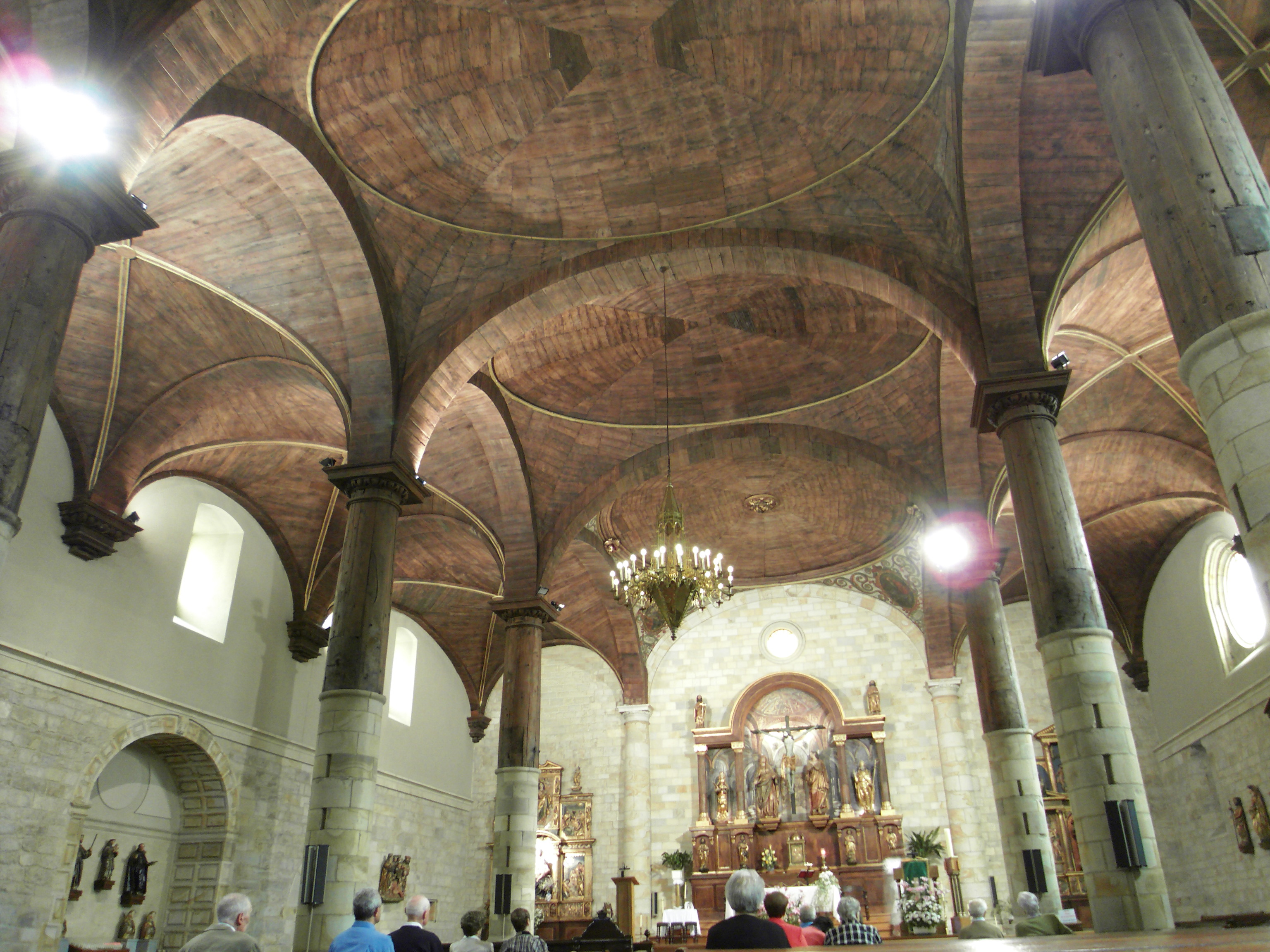 San Martin church, interior wooden columns and domes, Urretxu (Guipuscoa, Basque Country)